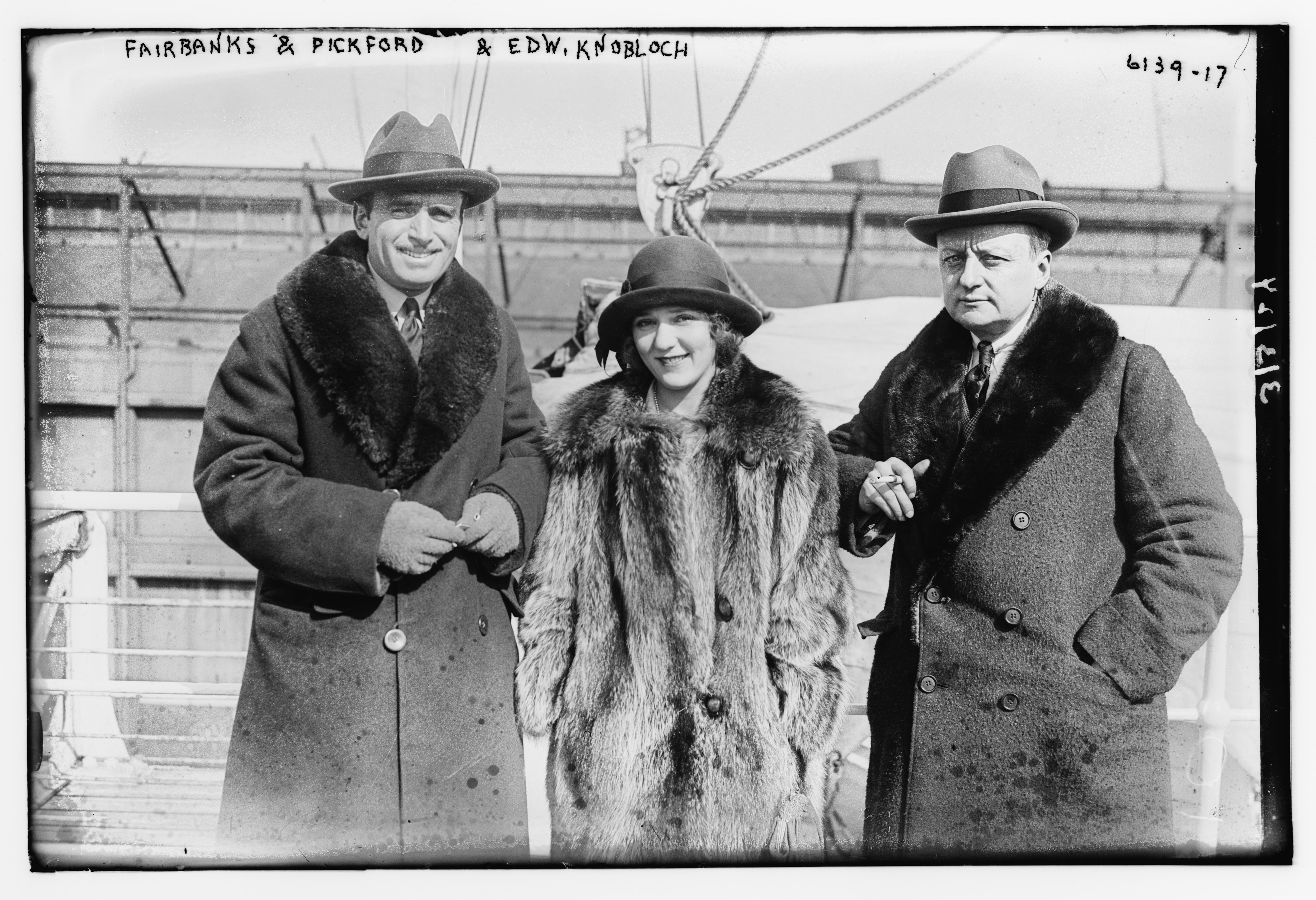 Title: Fairbanks & Pickford with Edw. Knobloch Abstract/medium: 1 negative : glass ; 5 x 7 in. or smaller.